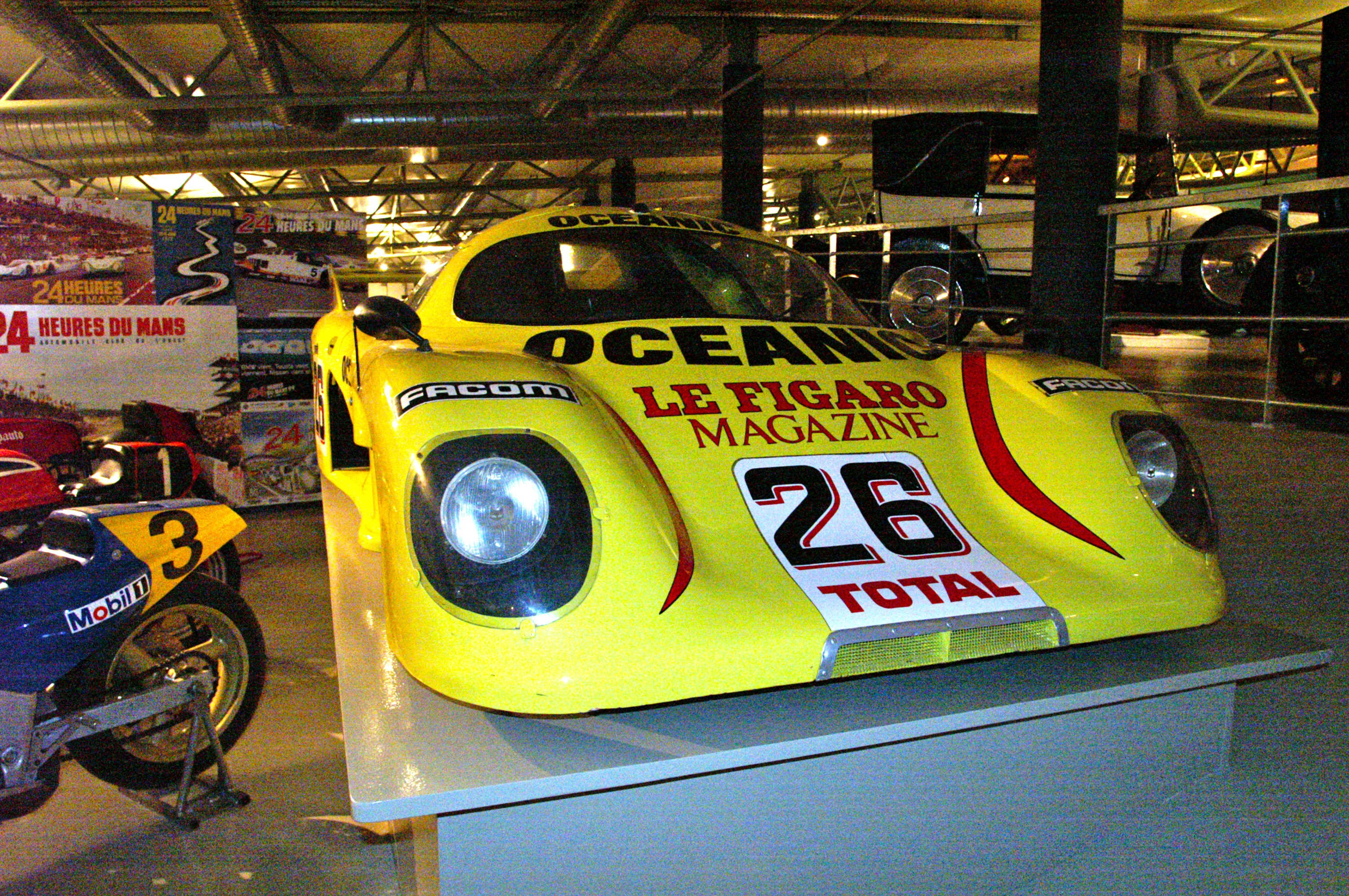 1981 Rondeau M379 C at Le Musee des 24 Heures. This car is chassis #006, driven by Henri Pescarolo (F)/Patrick Tambay (F) at 1981 24H of Le Mans, it was later raced by other teams in different liveries until 1988. (